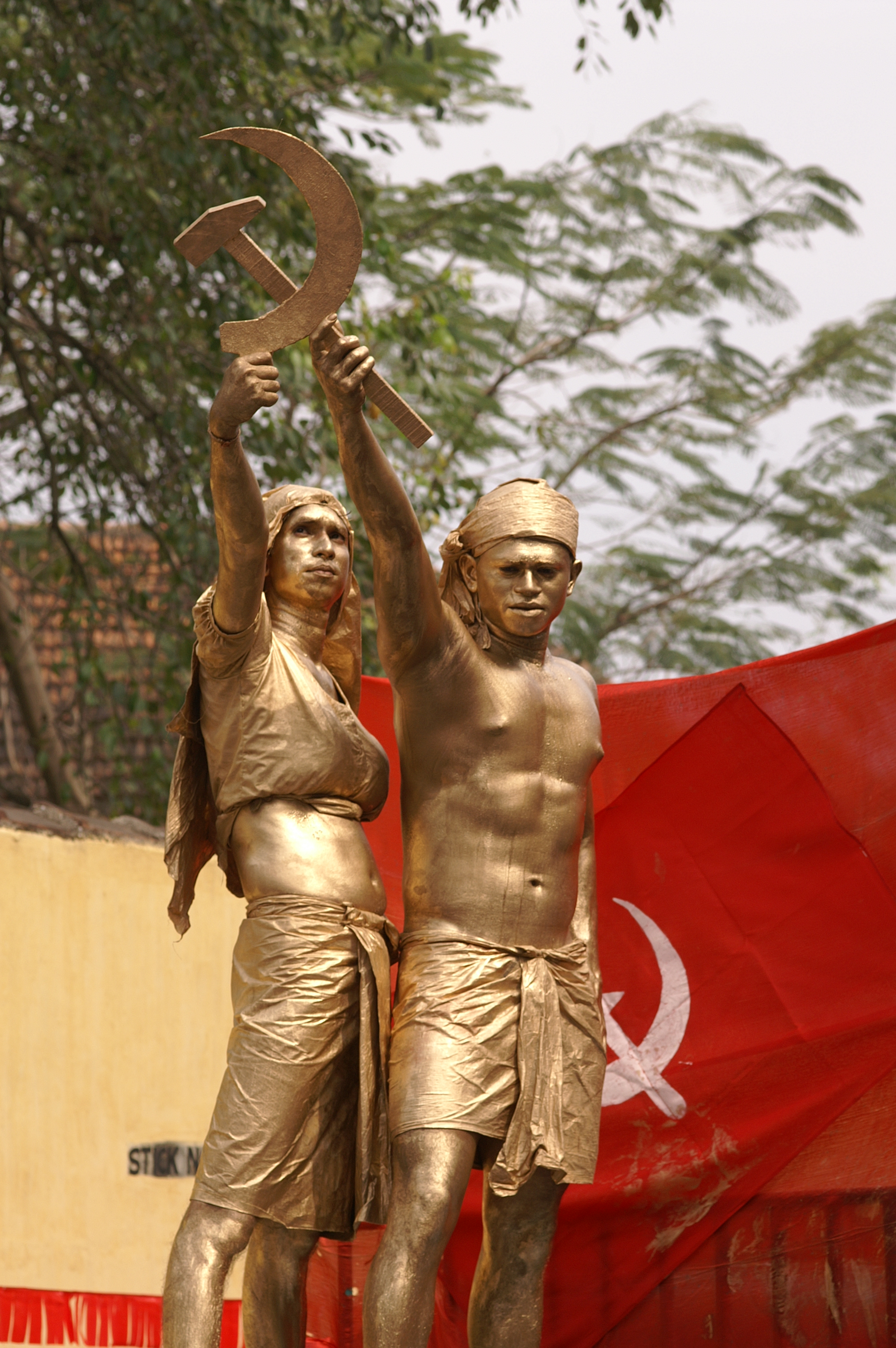 There was a big Communist part rally in Fort Cochin Kerala (India). The communists are the governing party in Kerala, and have beed for decades. A tableau vivant in a Communist part rally in Fort Cochin, Kerala. The communists were the governing party in Kerala until 2011.